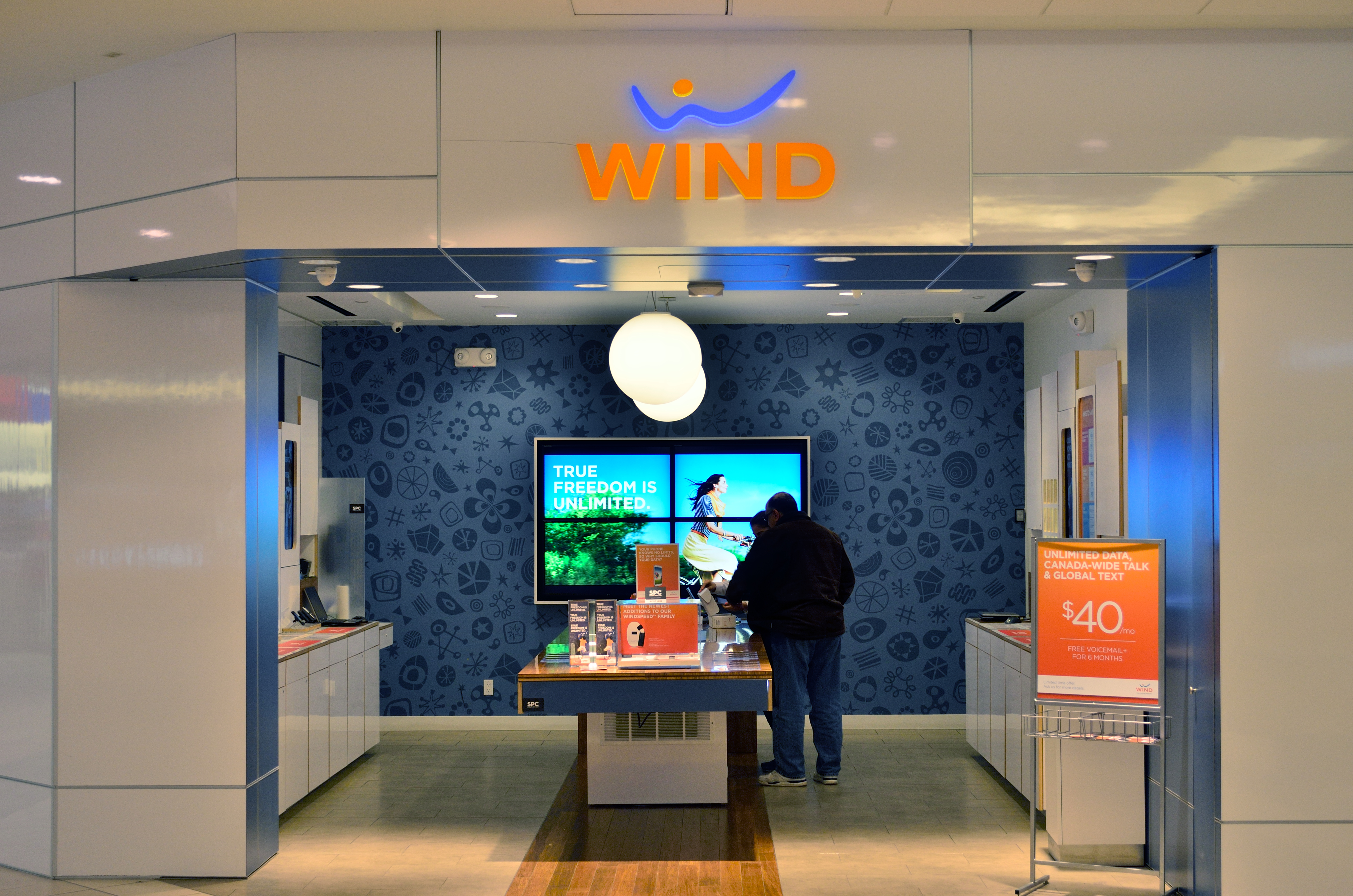 Wind Mobile at Promenade